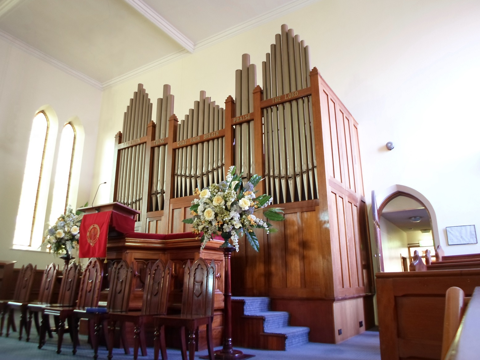 Photograph of the remodelled 1860s organ in St Andrew's Kirk, Launceston, Tasmania showing 1930s timberwork and part of the interior of the main hall.